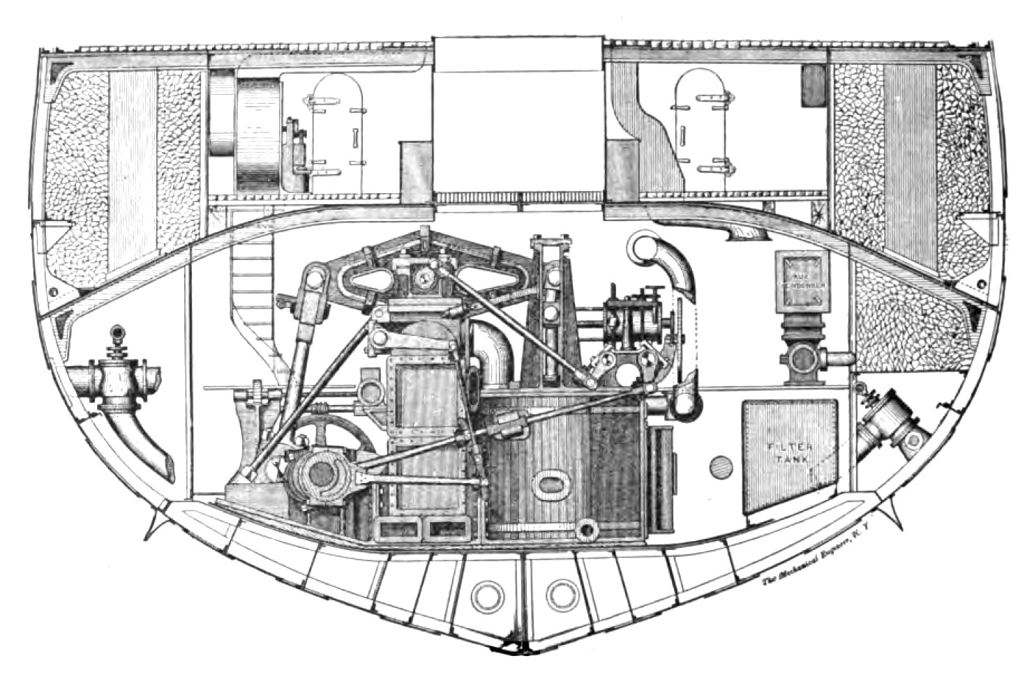 Beam-propeller engine of USS Chicago. The diagram shows only one of the ship's two engines; a second engine was laid athwartships in the opposite direction to the first, to drive the second screw.